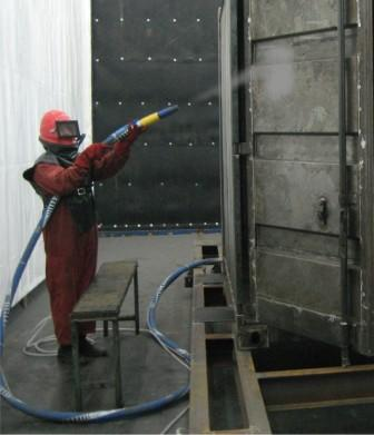 Sandblasting of metalic product